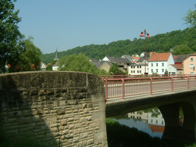 Southview of the bridge over the Sûre river on the border between Germany and Luxembourg.